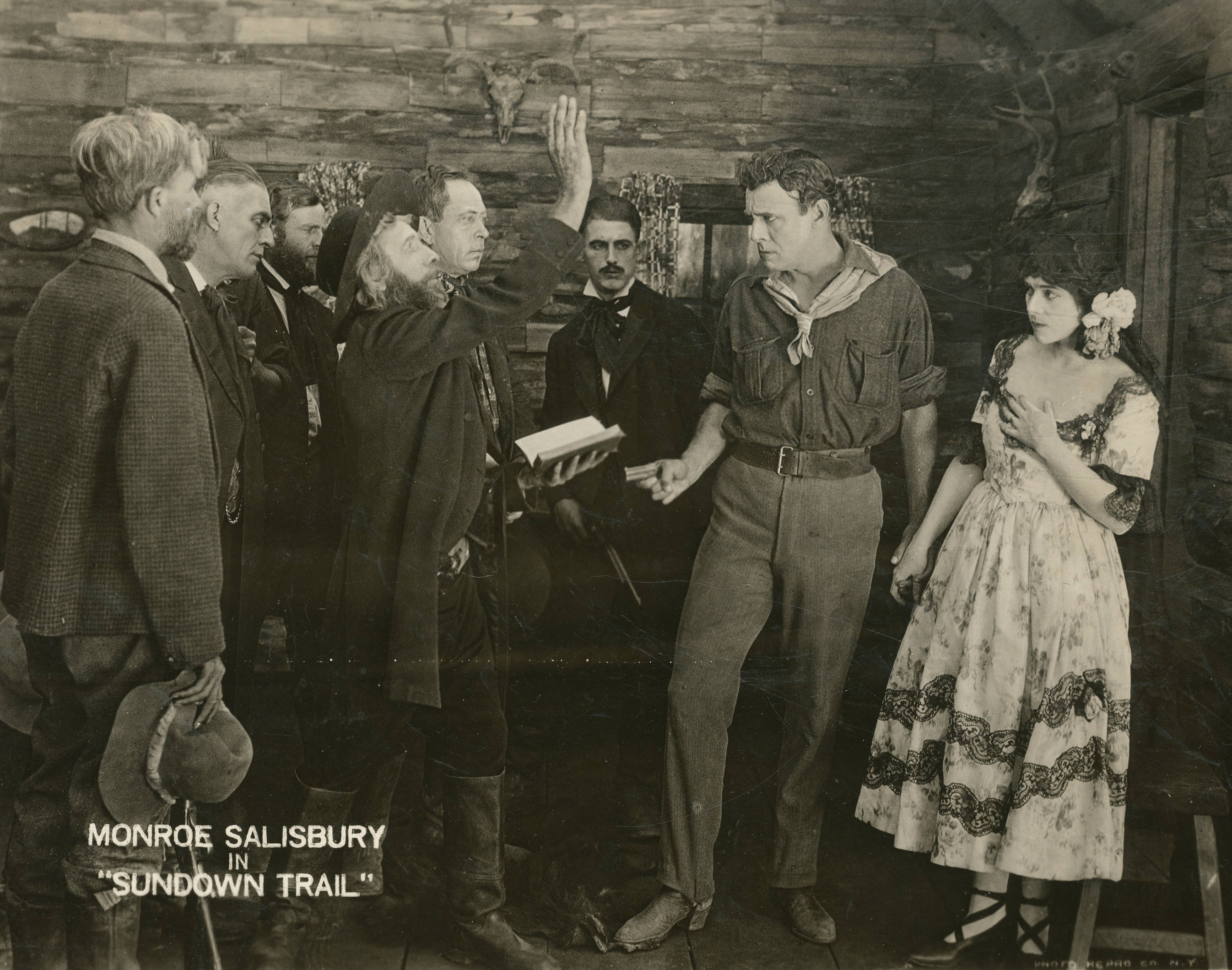 A scene from the American western film The Sundown Trail (1919)," which played at the Colonial Theater, Seattle. Includes Monroe Salisbury and Alice Claire Elliott. Date stamped Dec. 2, 1919. Subjects: motion pictures, actors